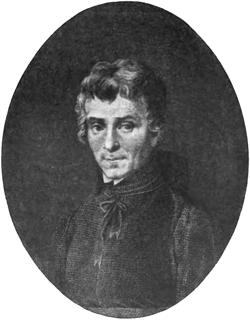 Franz Ignaz Cassian Hallaschka (1780-1847), Czech naturalist, mathematician, physicist and astronomer